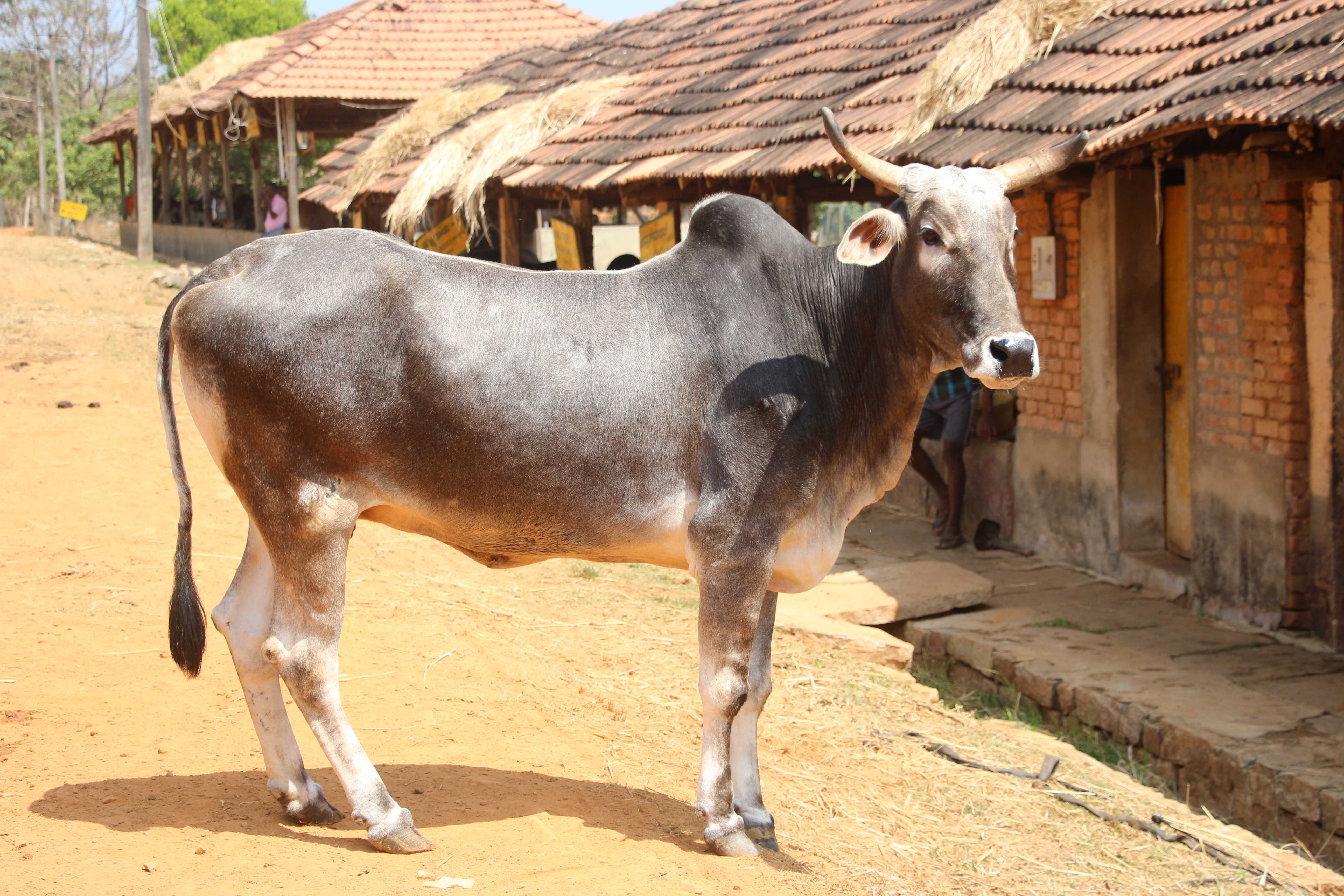 Indian cow breed Hariana ಕನ್ನಡ: ಭಾರತೀಯ ಗೋತಳಿ ಹರಿಯಾಣ